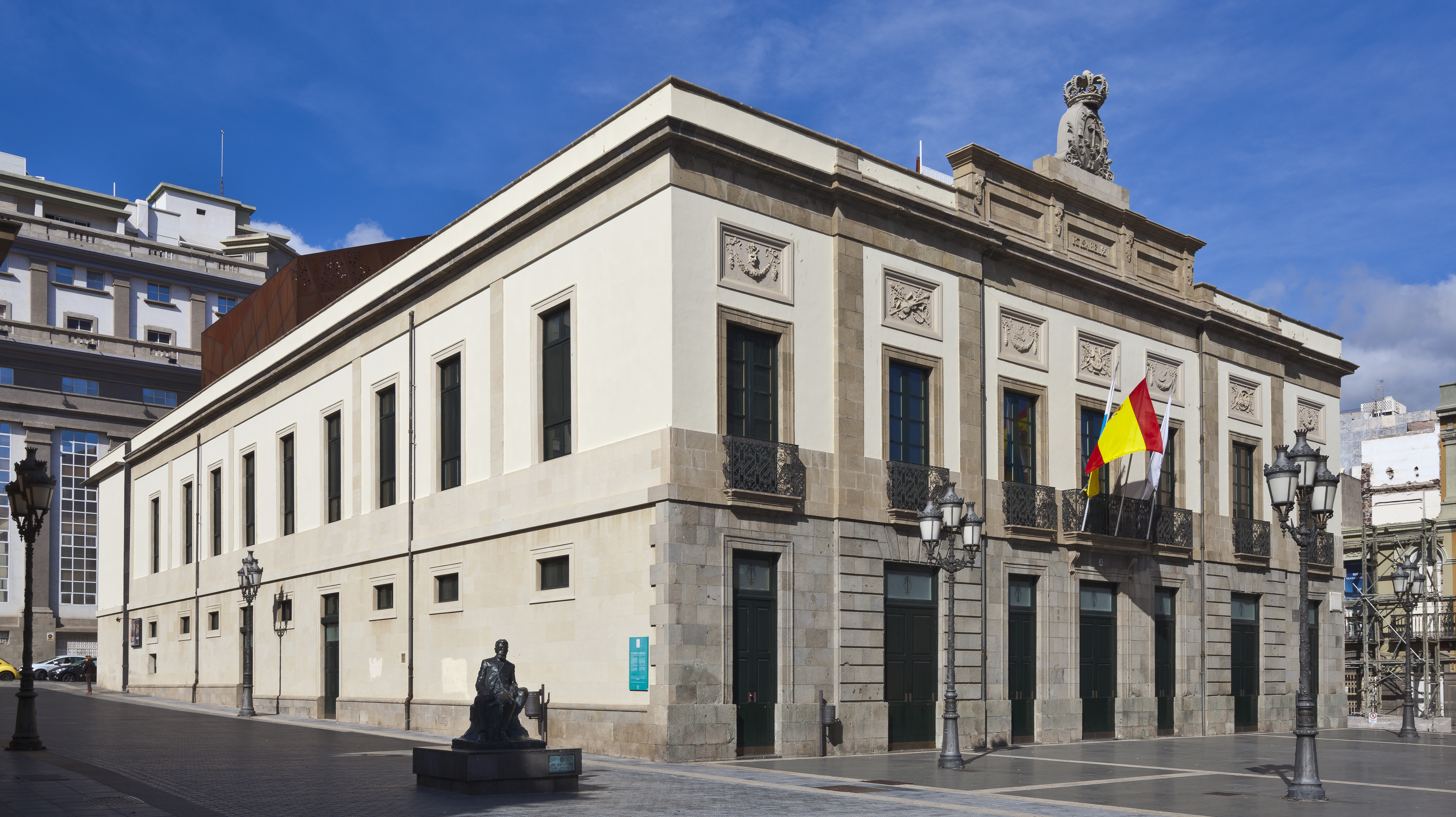 Guimerá Theater, Square Isla de Madeira, Santa Cruz de Tenerife, Spain